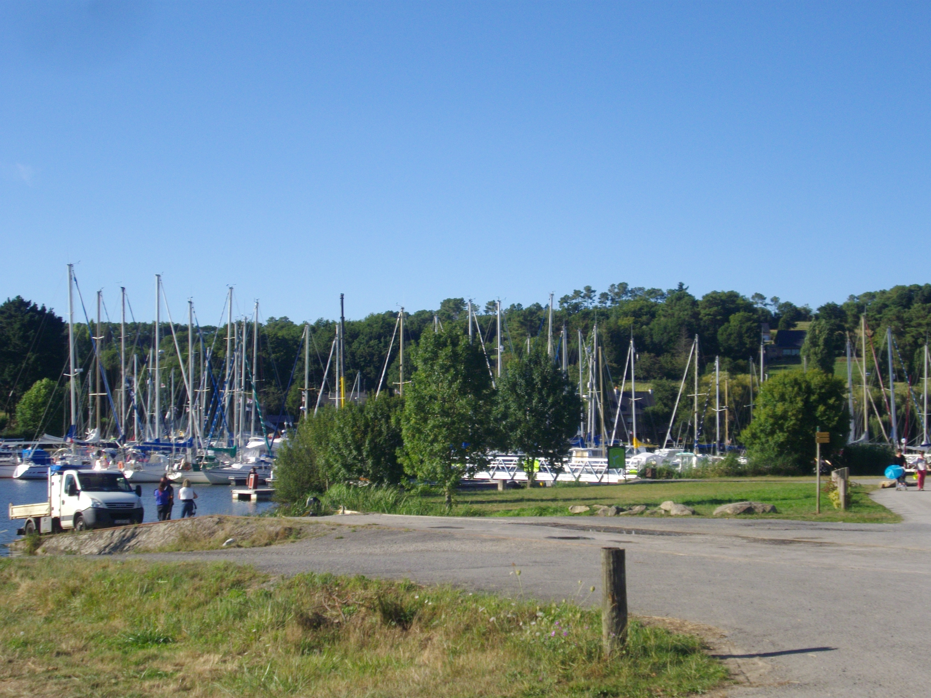 Foleux harbour on Vilaine river, side of Nivillac (Morbihan, France)